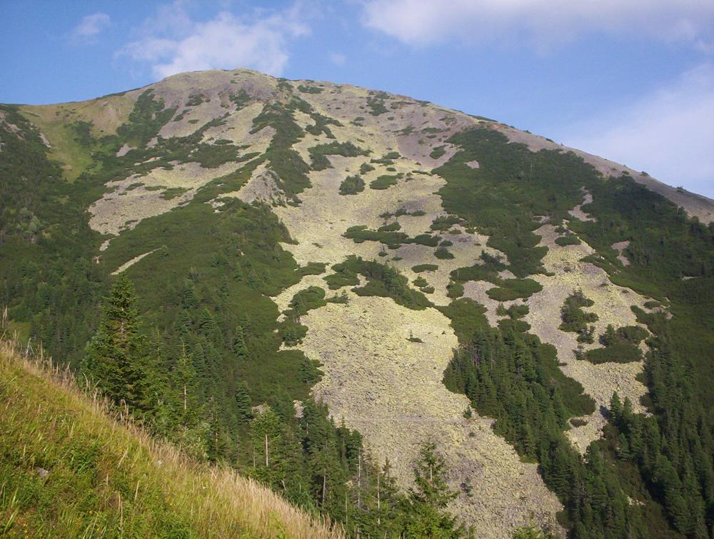 Syvulia - the highest peak in Gorgany.